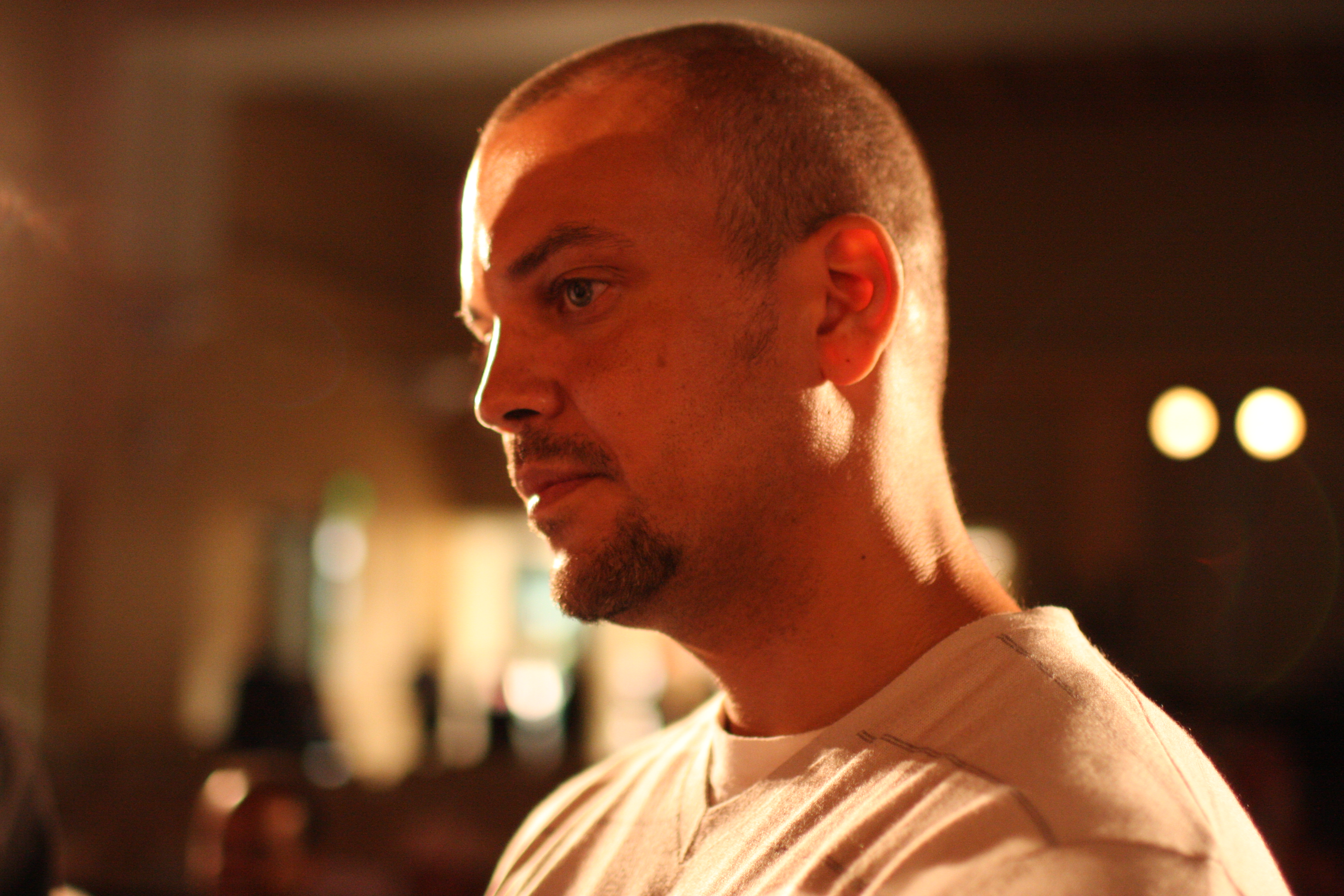 Quincy Jones III. (CC) Brian Solis, and .